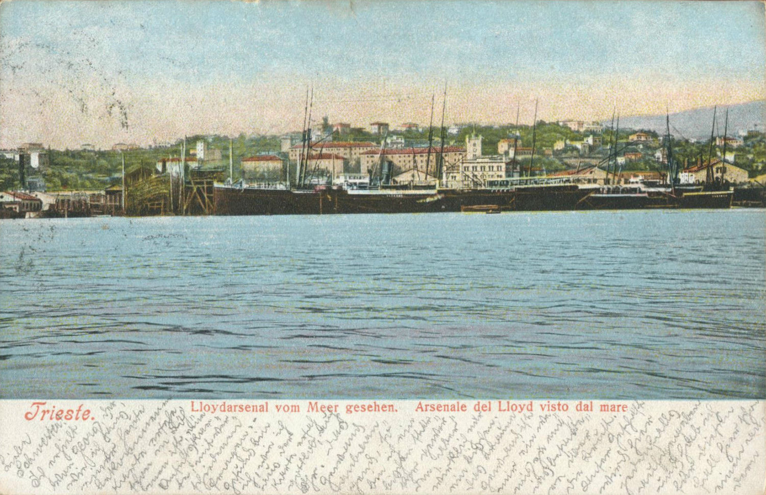 Picture postcard (Austrian Lloyd, before 1914, unknown painter), Lloydarsenal from seaside